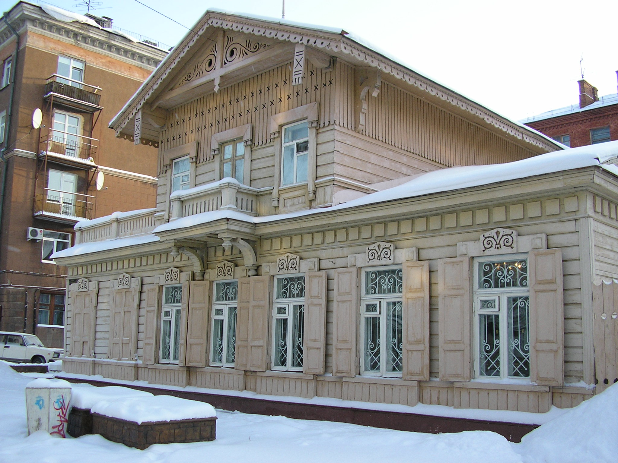 Omsk